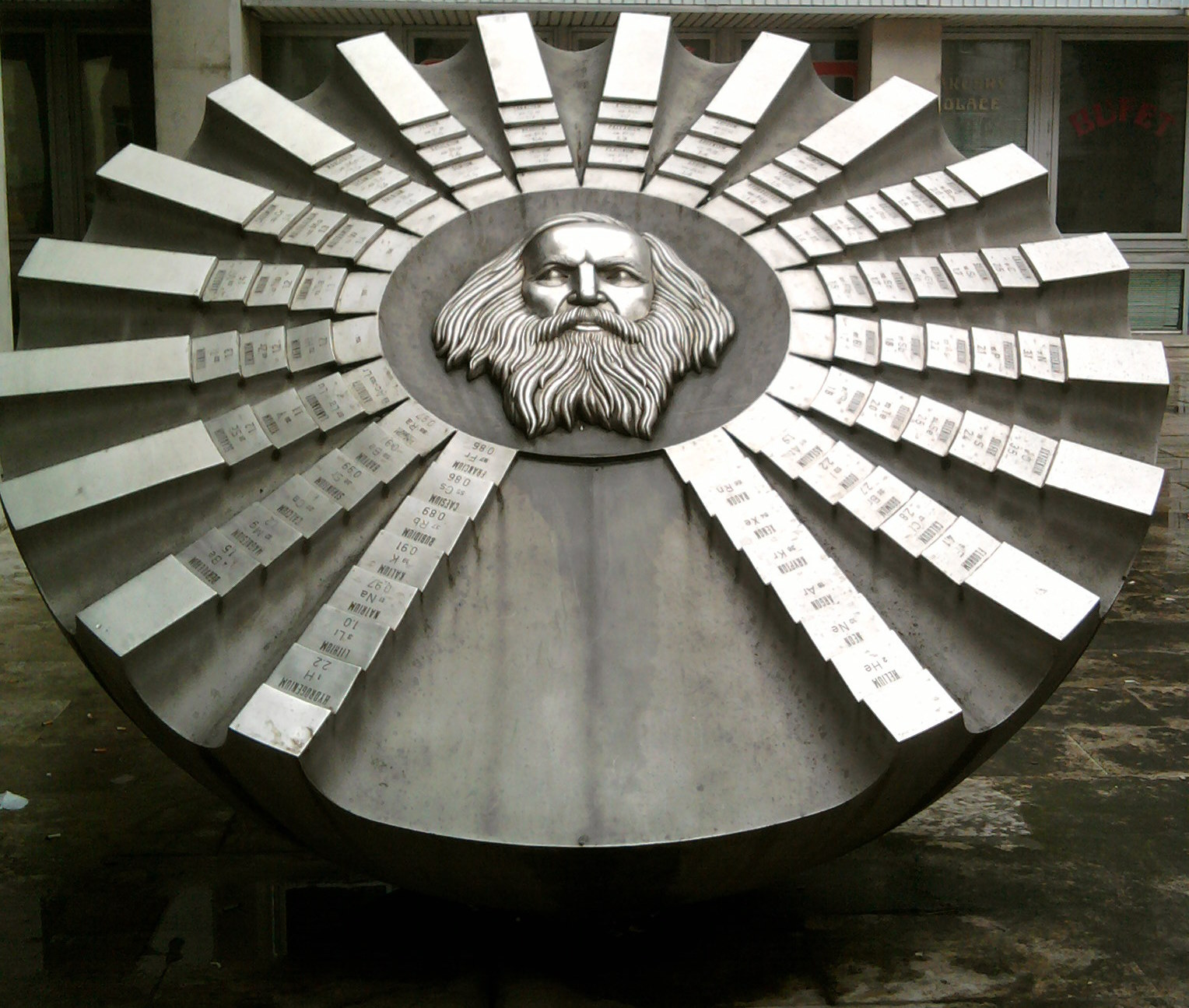 Monument to the periodic table, in front of the Faculty of Chemical and Food Technology of the Slovak University of Technology in Bratislava, Slovakia. The monument honors Dmitri Mendeleev.